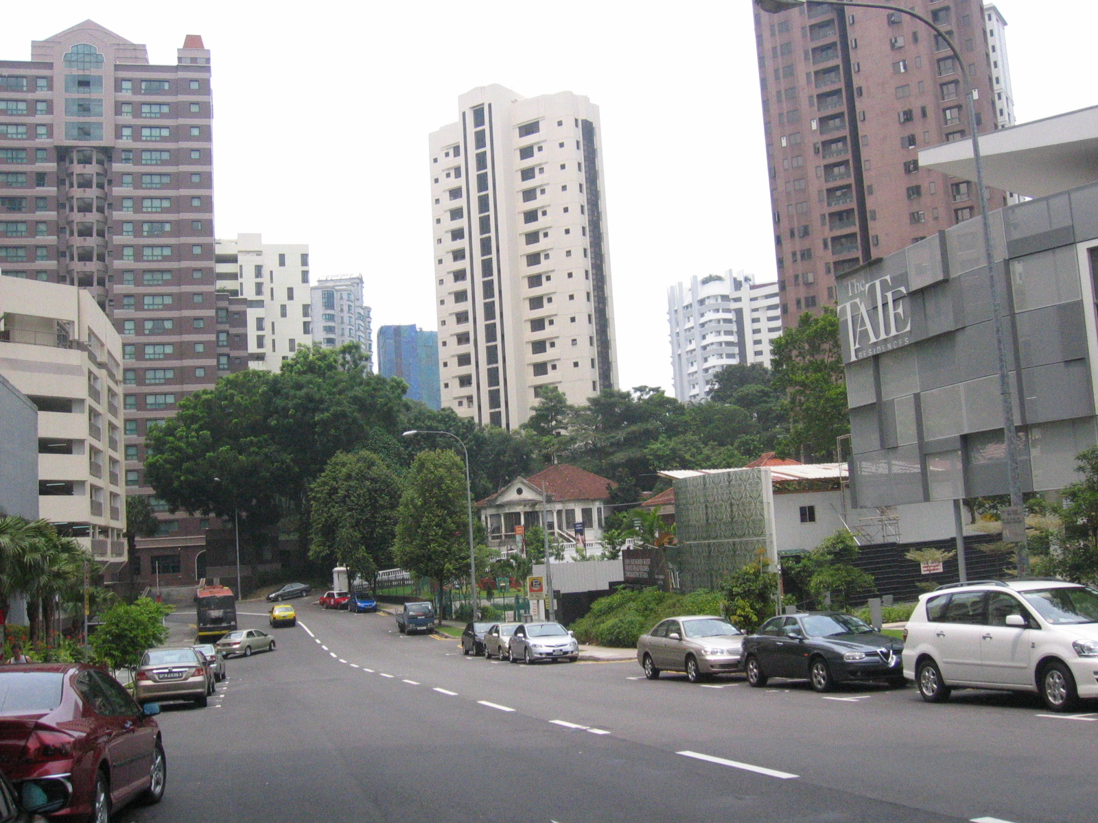 Claymore Road, Singapore. Taken by Terence Ong in November 2006.